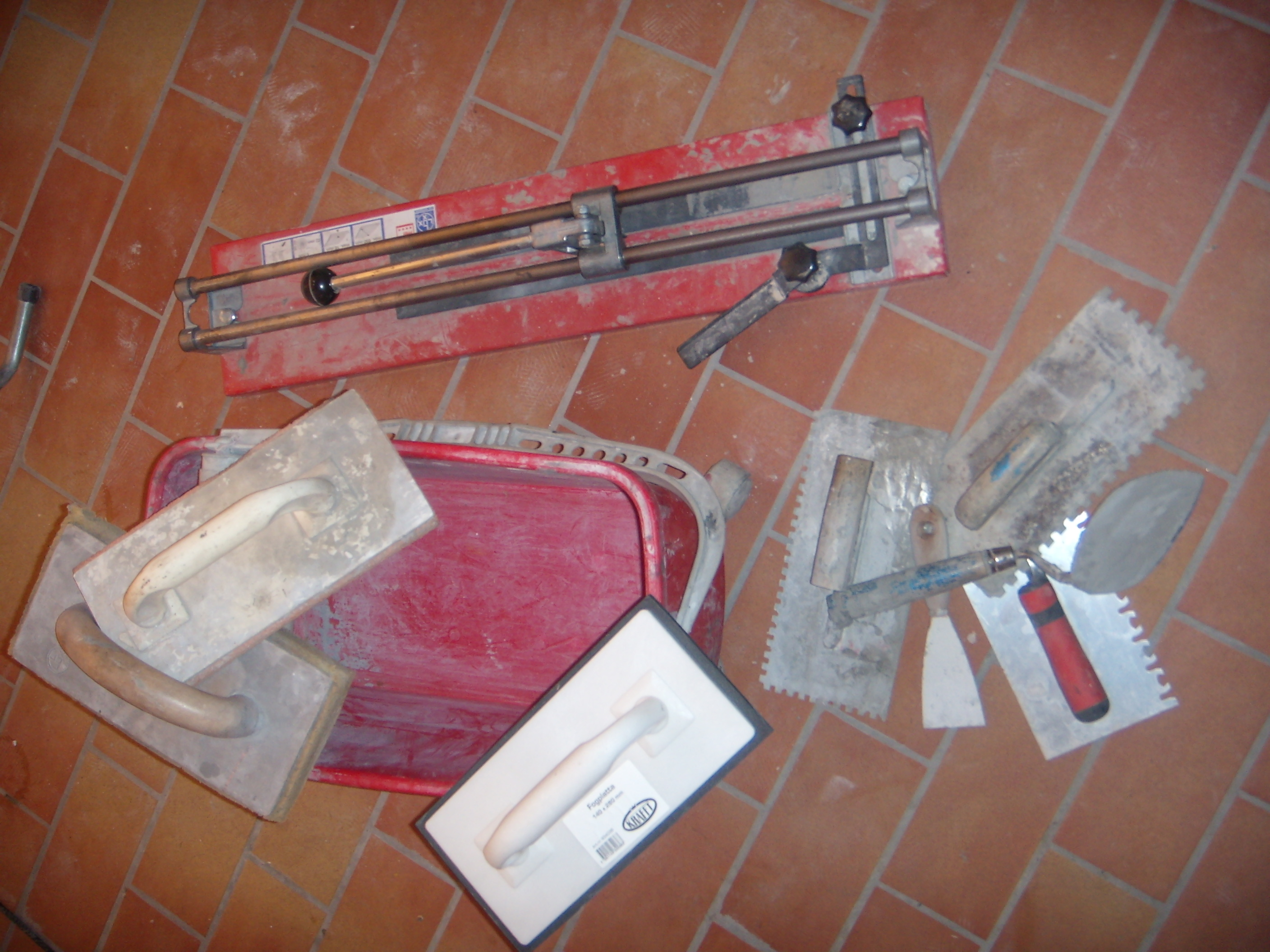 Ceramic working tools.jpg